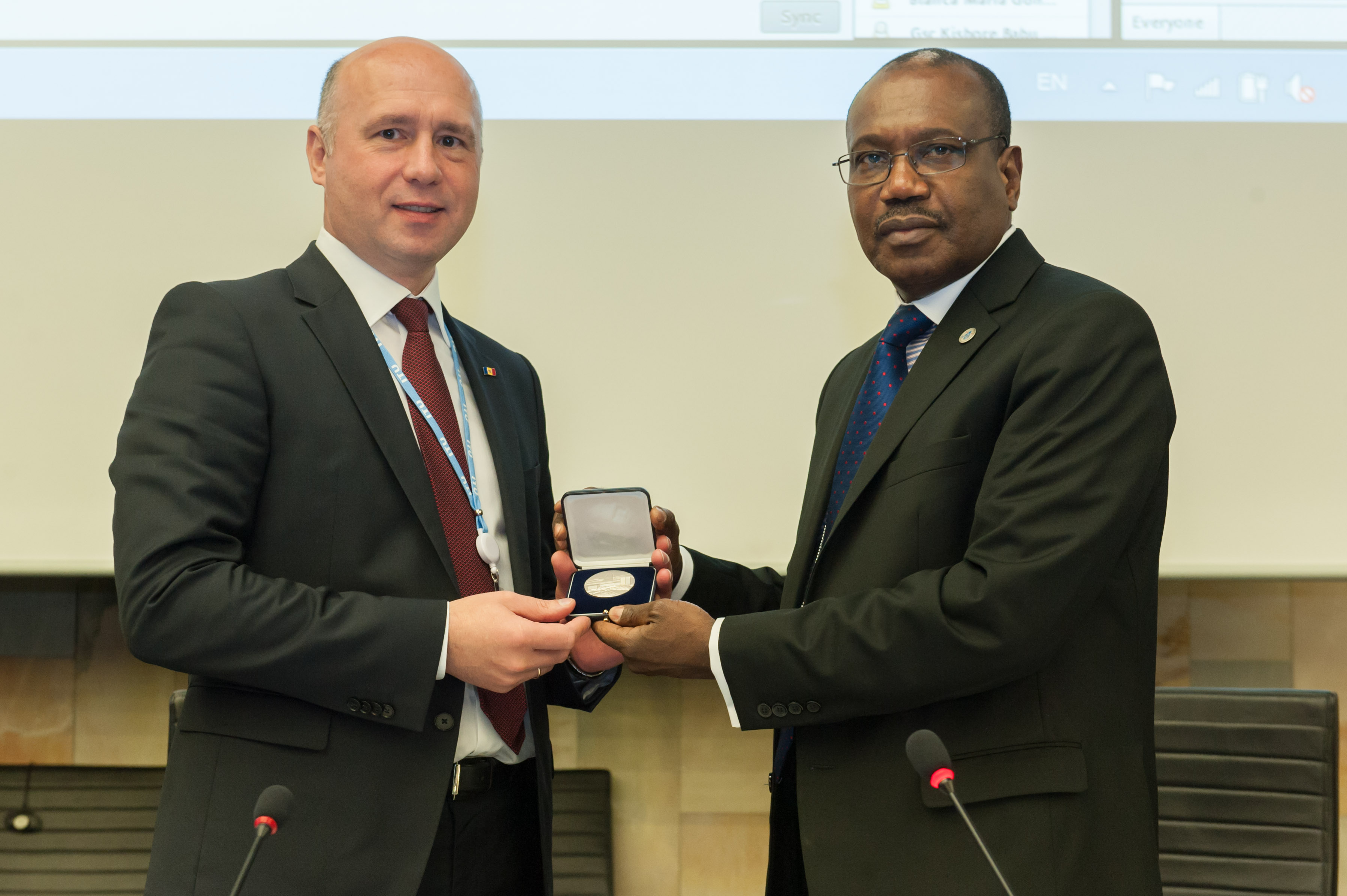 Dr. Hamadoun I. Touré, Secretary - General, ITU gives award to H.E. Mr. Pavel Filip, Minister of Information Technology and Communications, Republic of Moldova at the Telecommunication Development Advisory Group meeting. ©ITU/ I.Wood